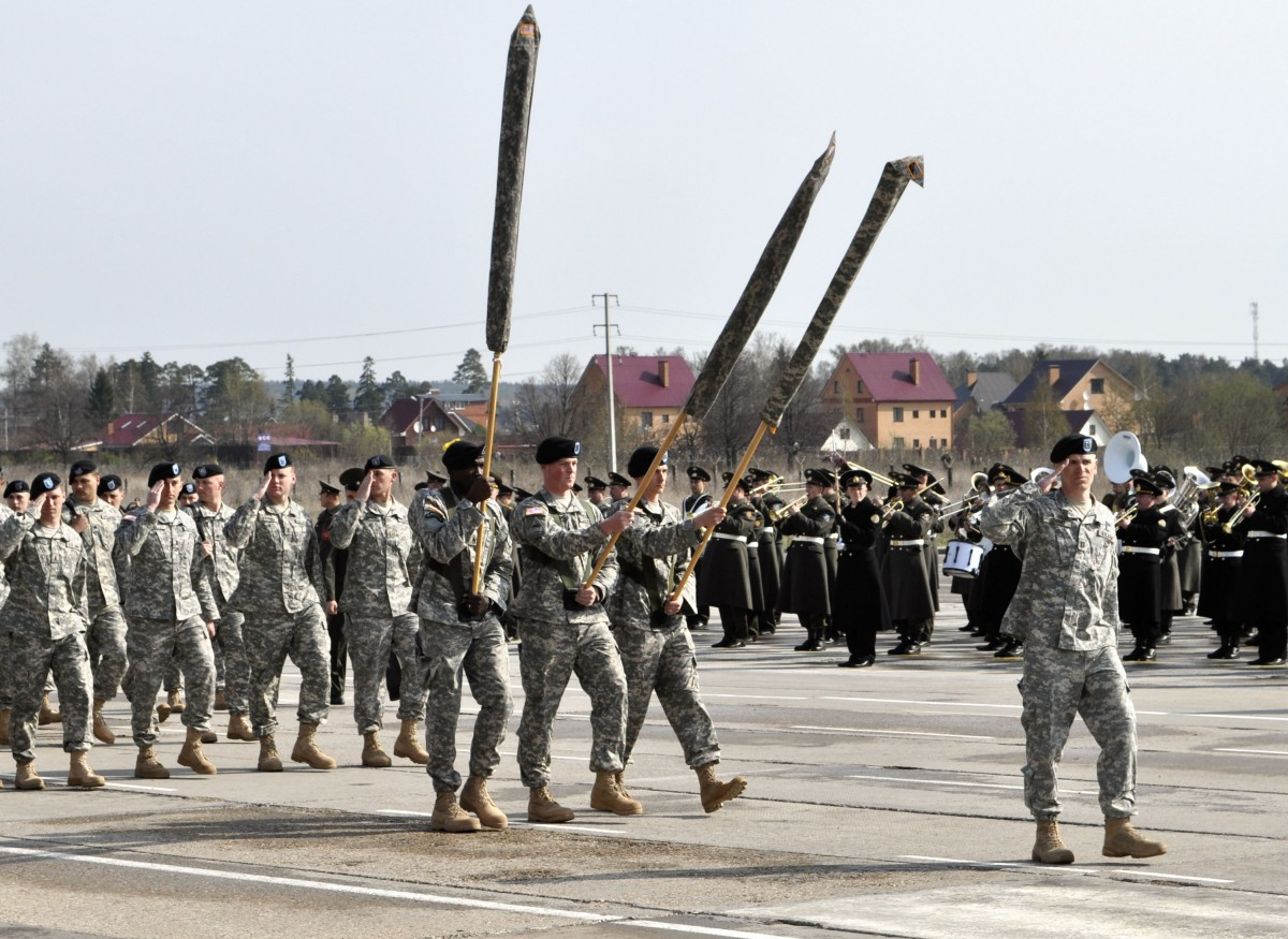 HEIDELBERG, Germany — Soldiers of U.S. Army Europe's 170th Infantry Brigade Combat Team marched into history during Russia's 65th Victory Day parade in Moscow, May 9.